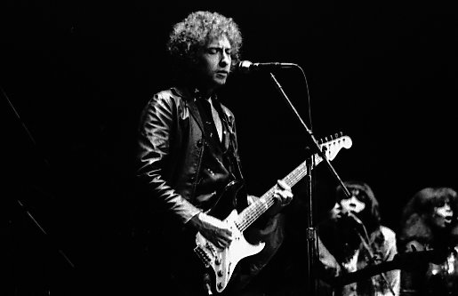 Bob Dylan at Massey Hall, Toronto, April 18, 1980 Photo by Jean-Luc Ourlin